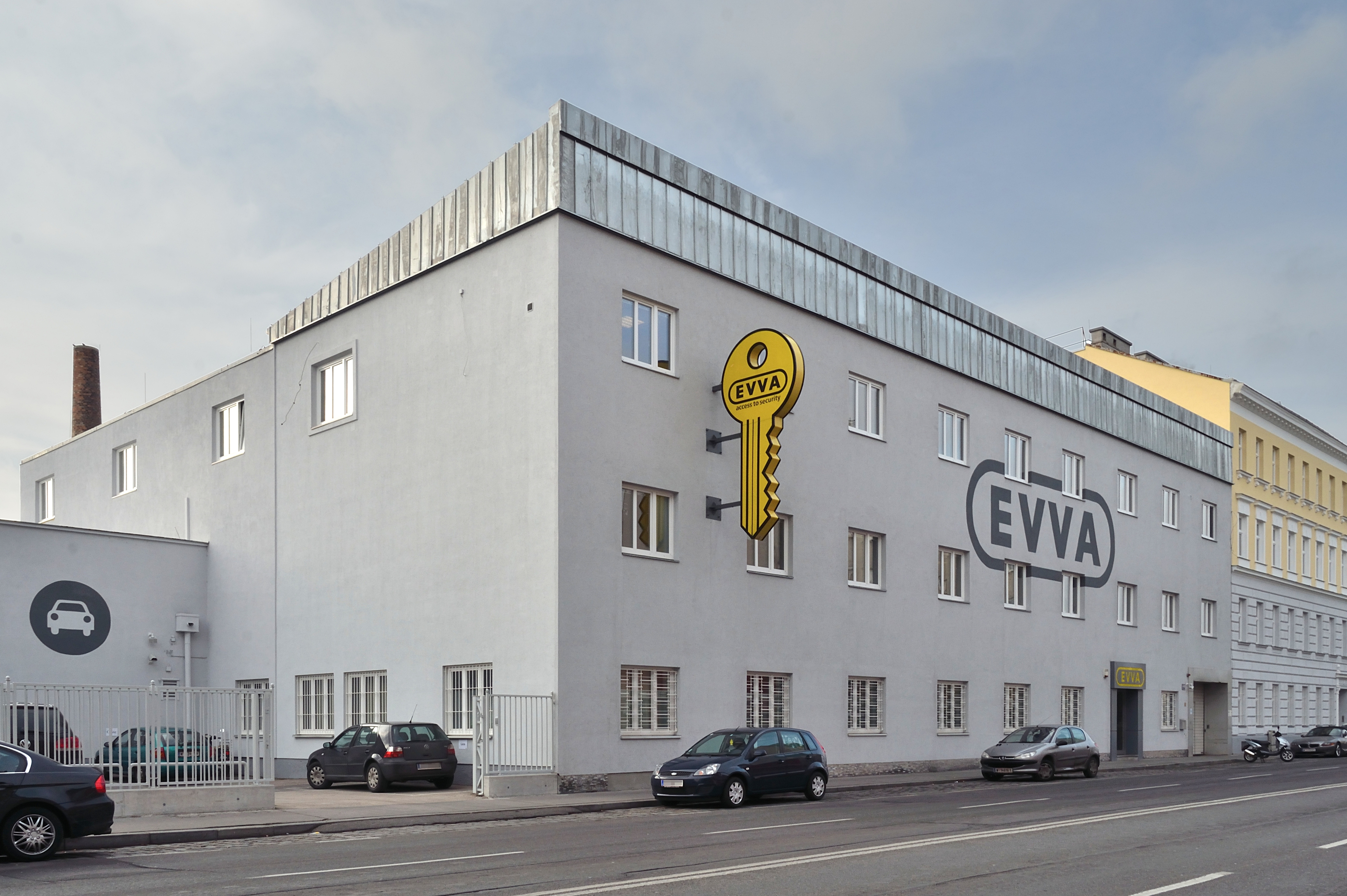 The producer of keys and security solutions EVVA is located at Wienerberg, Meidling.